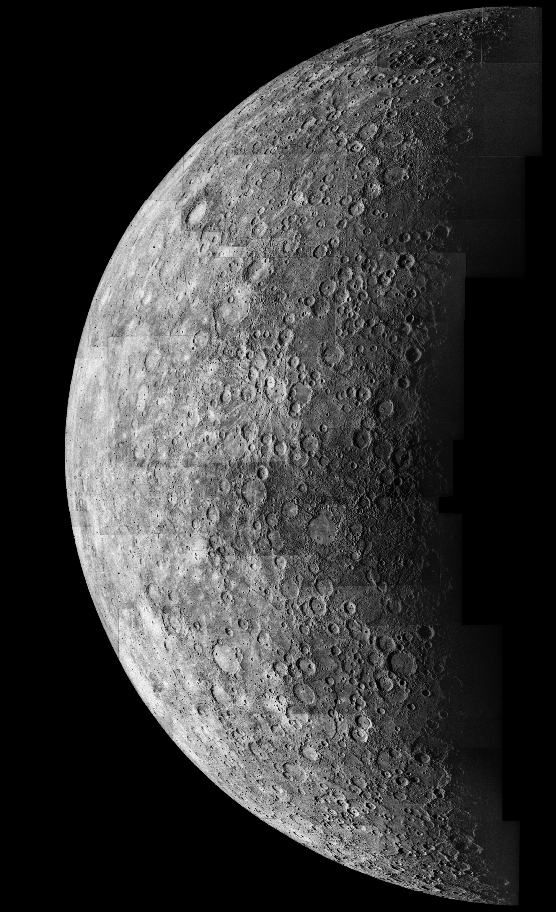 Mercury from Mariner 10 (NASA) * image * original image caption: This is a mosaic of images taken of Mercury taken from 125,000 miles away. The tiny, brightly rayed crater (just below center top) was the first recognizable feature on the planet's surface and was named in memory of astronomer Gerard Kuiper, a Mariner 10 team member. The Mariner 10 spacecraft was launched in 1974. The spacecraft took images of Venus in February 1974 on the way to three encounters with Mercury in March and September 1974 and March 1975. The spacecraft took more than 7,000 images of Mercury, Venus, the Earth and the Moon during its mission. The Mariner 10 Mission was managed by the Jet Propulsion Laboratory for NASA's Office of Space Science in Washington, D.C.